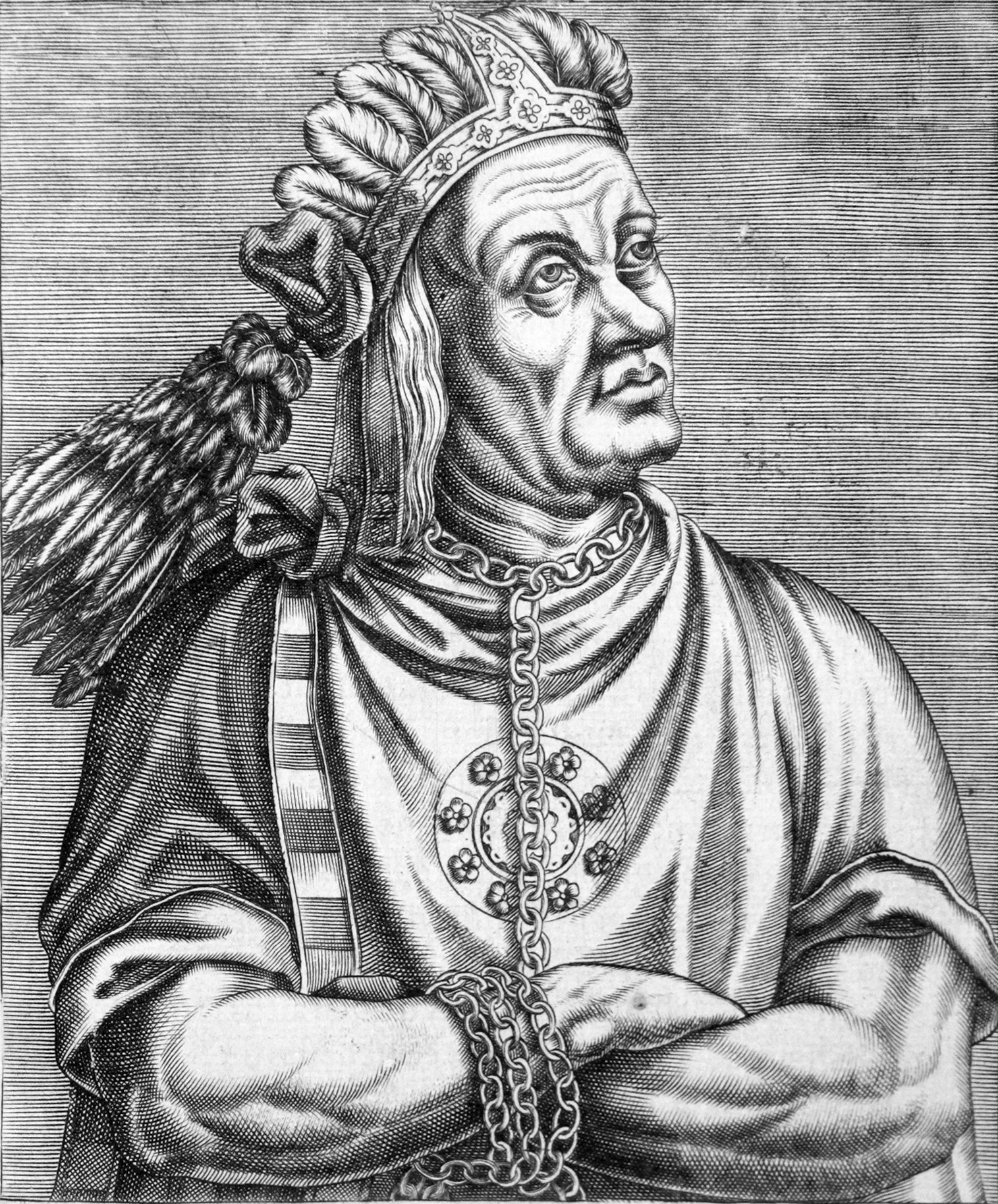 Atahualpa, from tome 3, folio 641 recto of Les vrais pourtraits et vies des hommes illustres grecz, latins et payens (1584) by André Thevet.